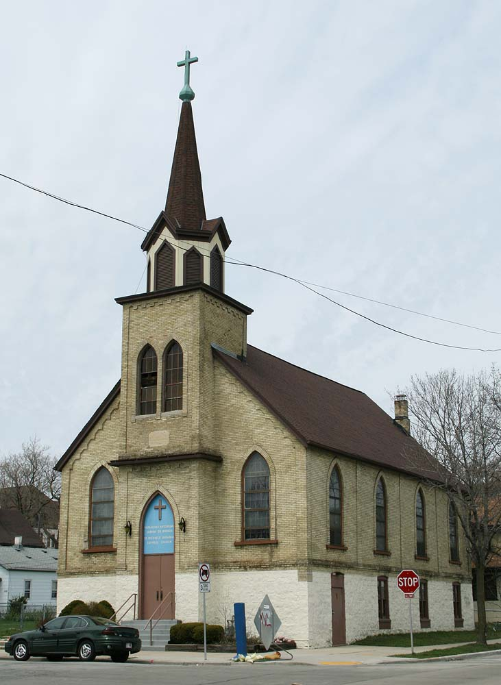 Salem Evangelical Church, Milwaukee, Wisconsin. National Register of Historic Places. Currently St. Michael's Ukrainian Catholic Church.